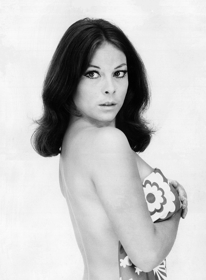 The Italian actress Gabriella Pallotta acting in Alba de CTspedes's comedy La Bambolona (1968).